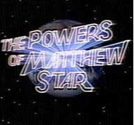 Open Title for the Television Show Matthew Star